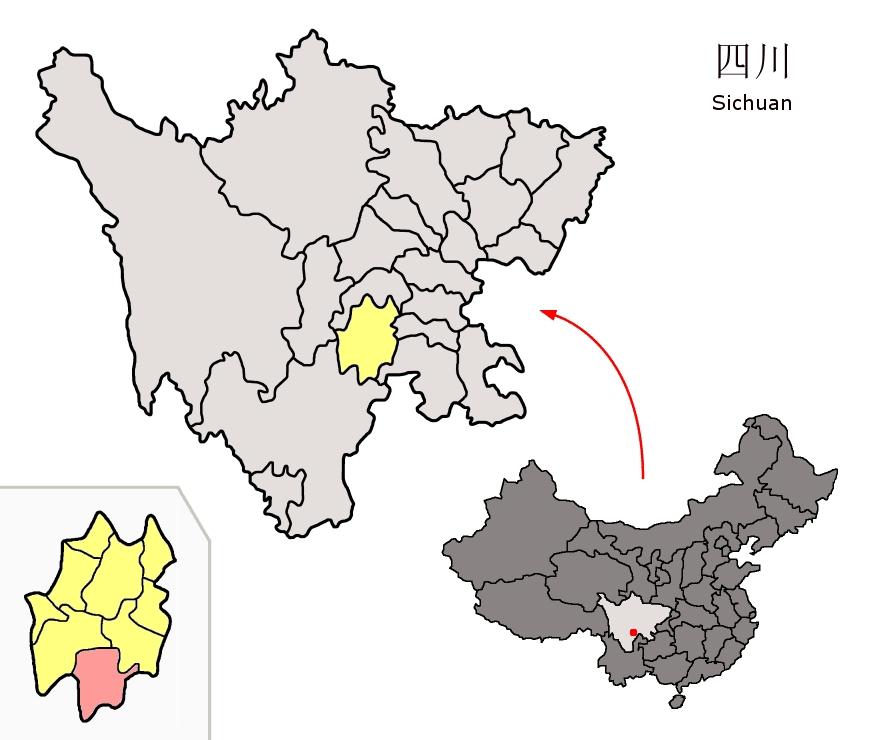 Location of Mabian County (pink) and Leshan Prefecture (yellow) within Sichuan province of China Map drawn in september 2007 using various sources, mainly : Sichuan province administrative regions GIS data: 1:1M, County level, 1990 Sichuan Counties map from Map of Yunnan & Sichuan Area from